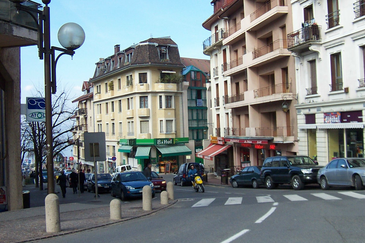 I took this picture of a street in Évian-les-Bains, France. Anyone may use it for any purpose.